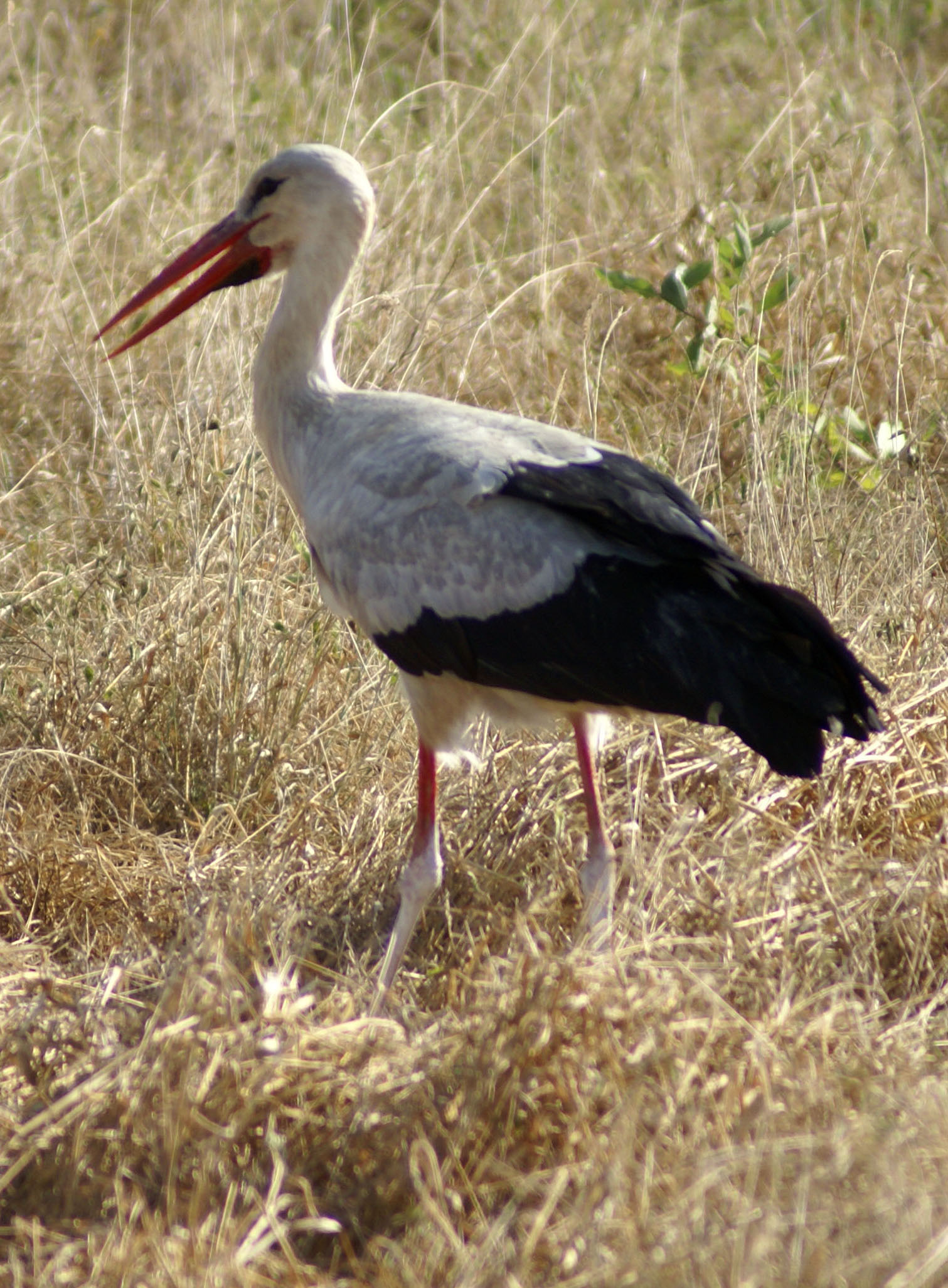 A White Stork at Tsavo East National Park, Kenya. Its knees and lower legs are a whitish colour due to being covered by bird guano - an example of thermoregulation by urohidrosis. The nominate is the subspecies that migrates to the summer weather of Kenya, while it is winter in Europe.